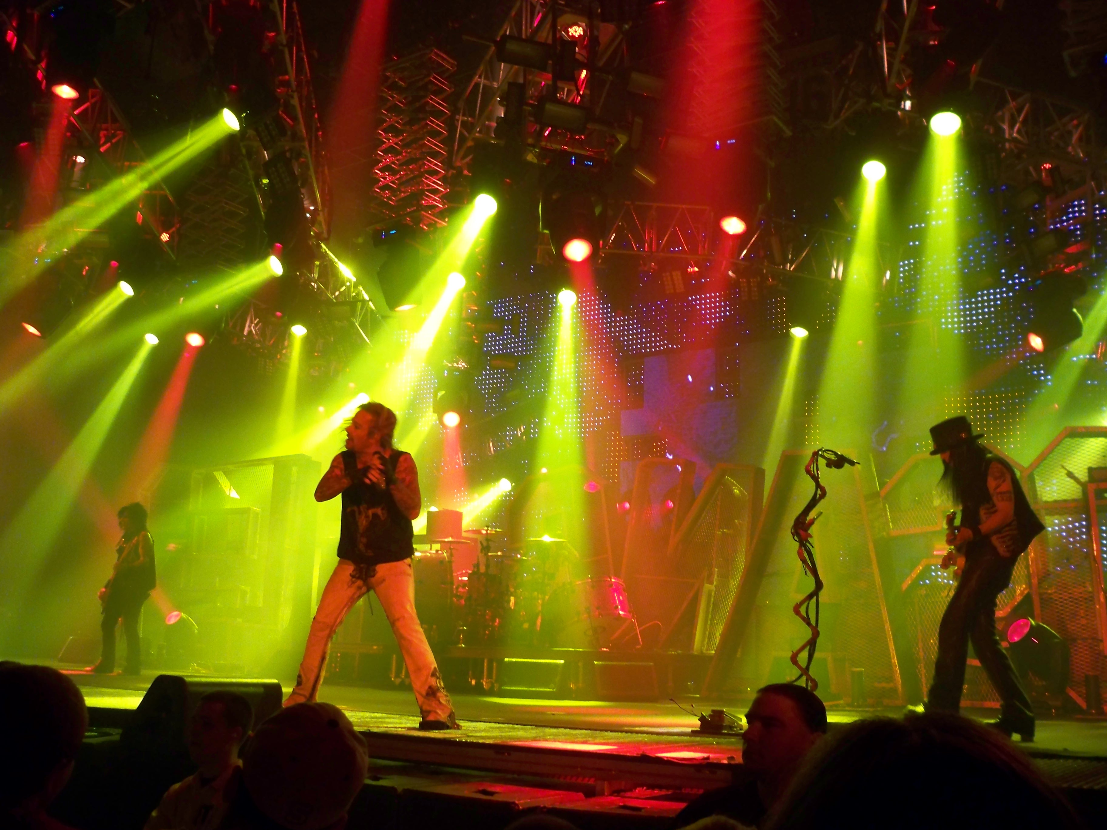 Mötley Crüe perform in Erie, PA.